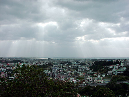 A skyline of Tomigusuku, Okinawa.